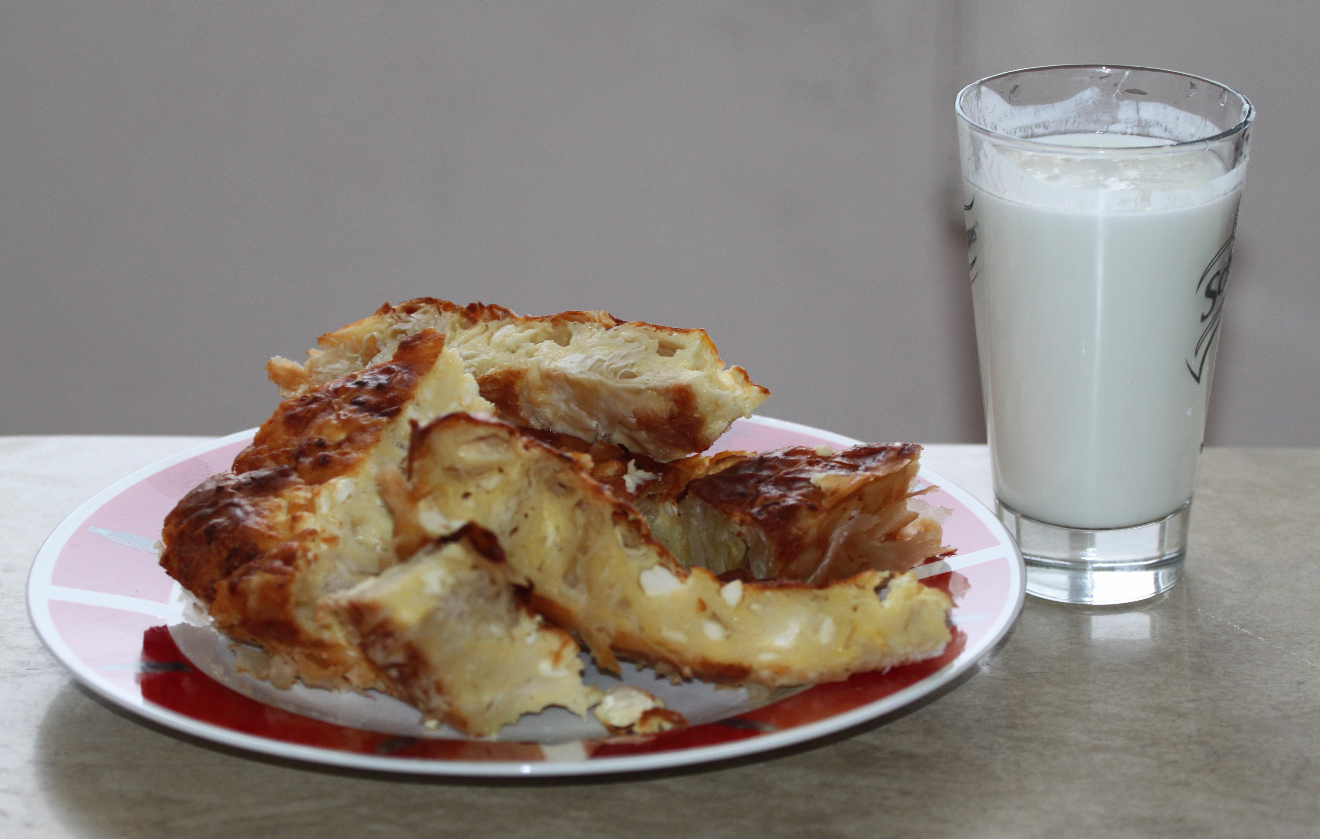 Ayran/yogurt drink and Banitsa (Bulgarian: Баница, also transliterated as banica and banitza) is a traditional Bulgarian food prepared by layering a mixture of whisked eggs and pieces of sirene between filo pastry and then baking it in an oven.